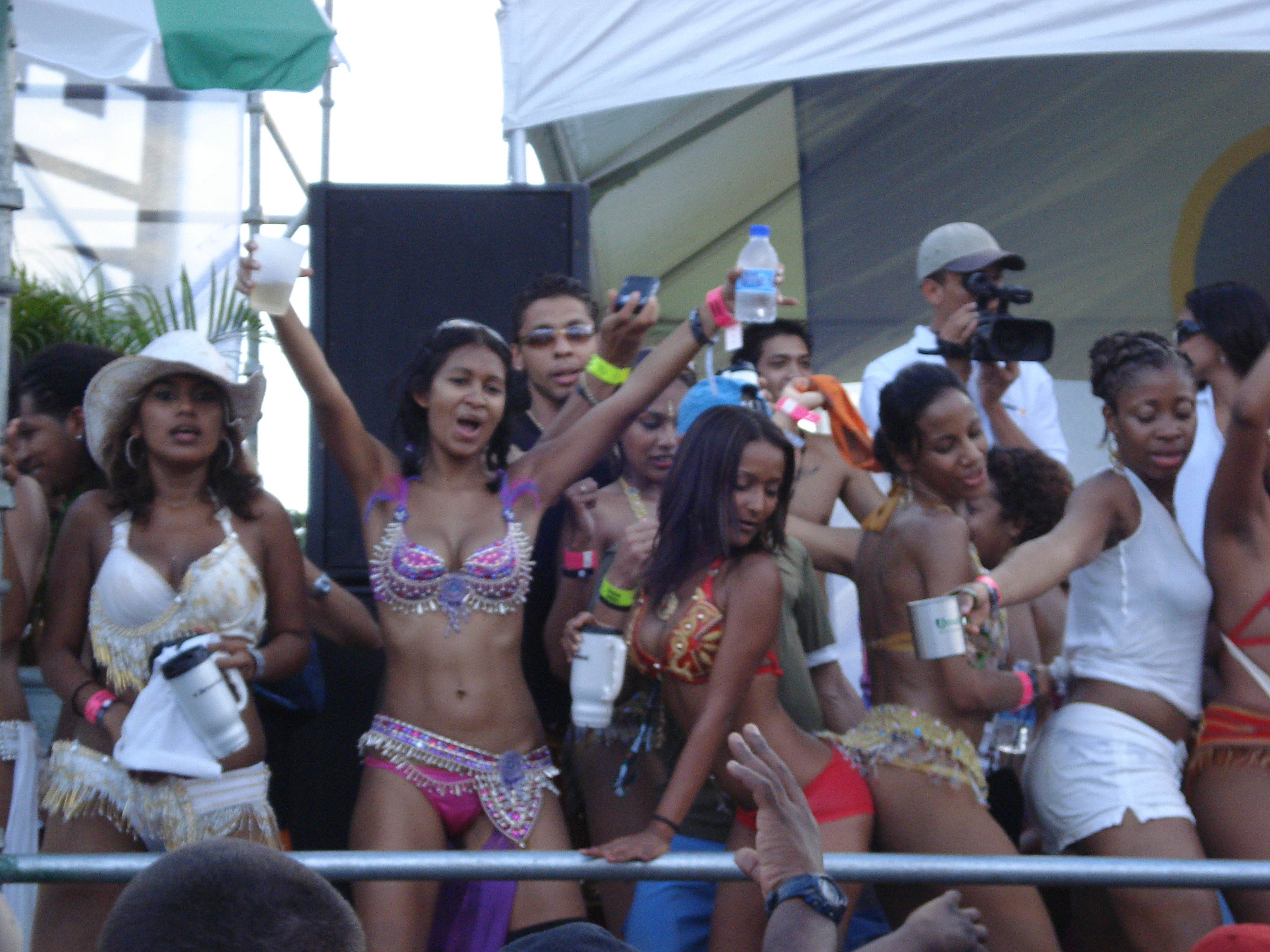 Carnival Monday celebrations, Port of Spain, Trinidad.